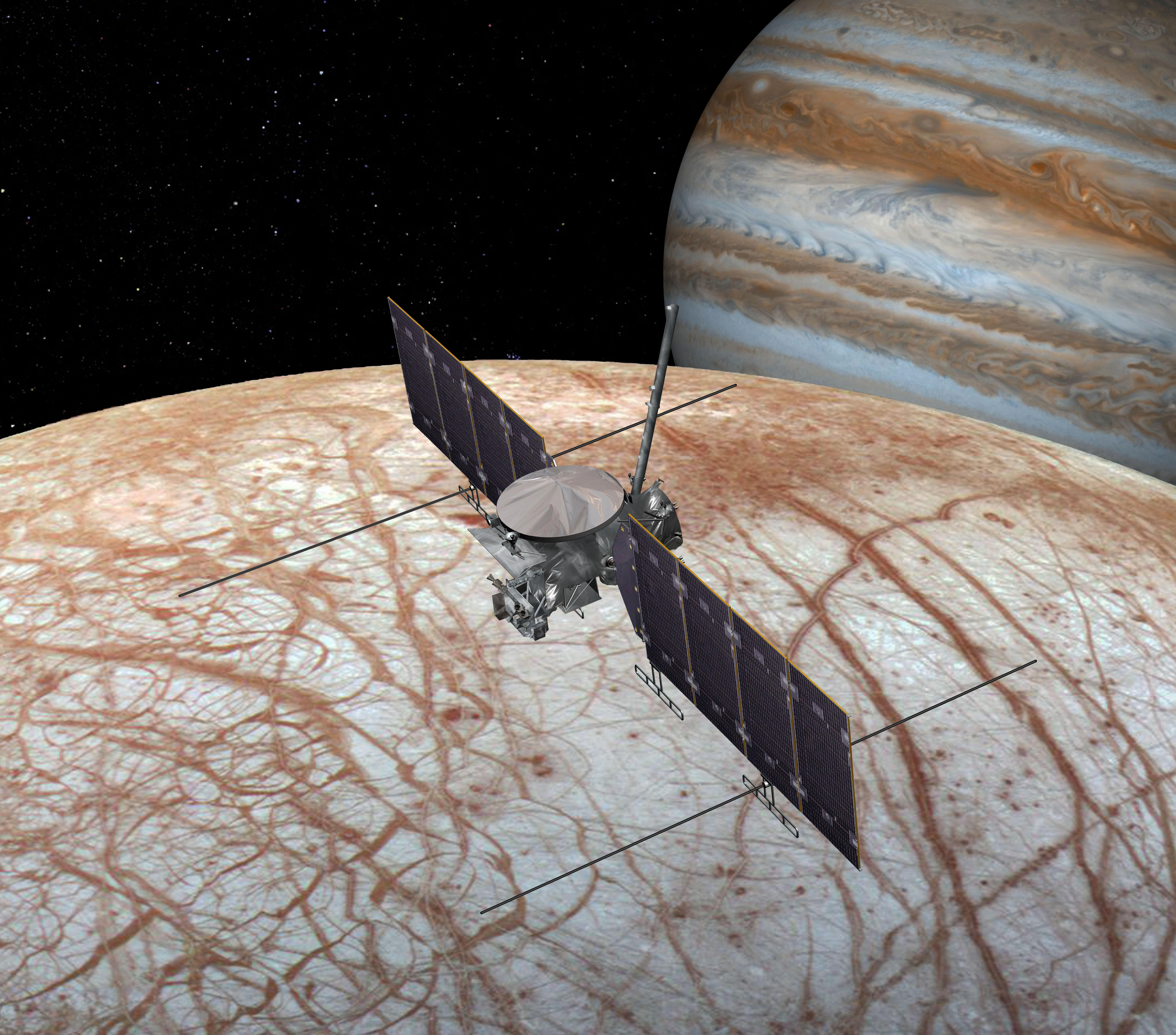 This artist's rendering shows NASA's Europa mission spacecraft, which is being developed for a launch sometime in the 2020s. This view shows the spacecraft configuration, which could change before launch, as of early 2016. The concept image shows two large solar arrays extending from the sides of the spacecraft, to which the mission's ice-penetrating radar antennas are attached. A saucer-shaped high-gain antenna is also side mounted, with a magnetometer boom placed next to it. On the forward end of the spacecraft (at left in this view) is a remote-sensing palette, which houses the rest of the science instrument payload. The nominal mission would perform at least 45 flybys of Europa at altitudes varying from 1,700 miles to 16 miles (2,700 kilometers to 25 kilometers) above the surface. This view takes artistic liberty with Jupiter's position in the sky relative to Europa and the spacecraft.